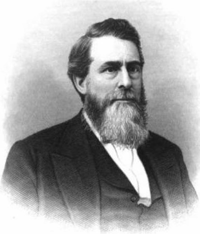 Barbour Lewis, US Representative from Tennessee